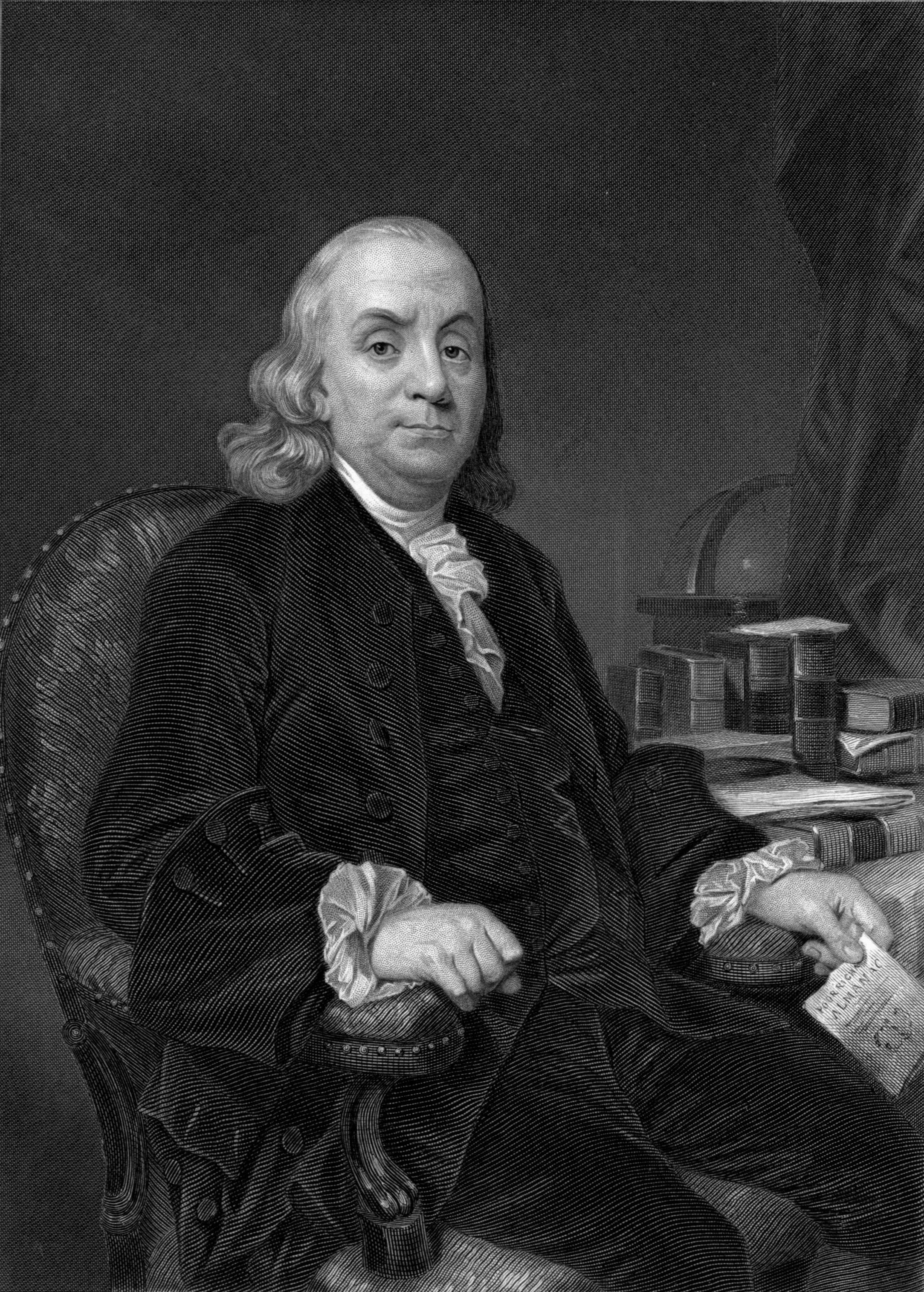 Portrait of Benjamin Franklin “from the original painting [by] Chappel in the possession of the publishers”